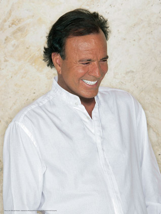 Julio Iglesias en 2007